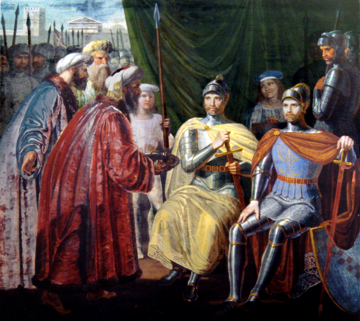 Roger of Sicily Receiving The Keys of the City.label QS:Len,"Roger of Sicily Receiving The Keys of the City."label QS:Lit,"Ruggero di Sicilia che riceve le chiavi di Palermo."